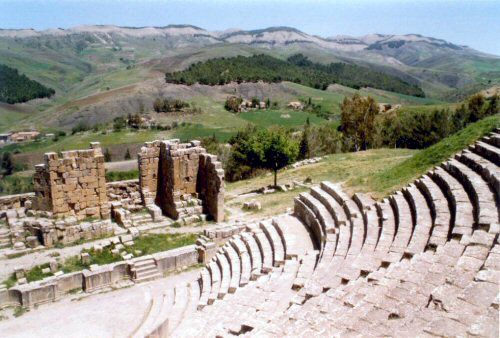 Roman Theatre, Djemila (Algeria)